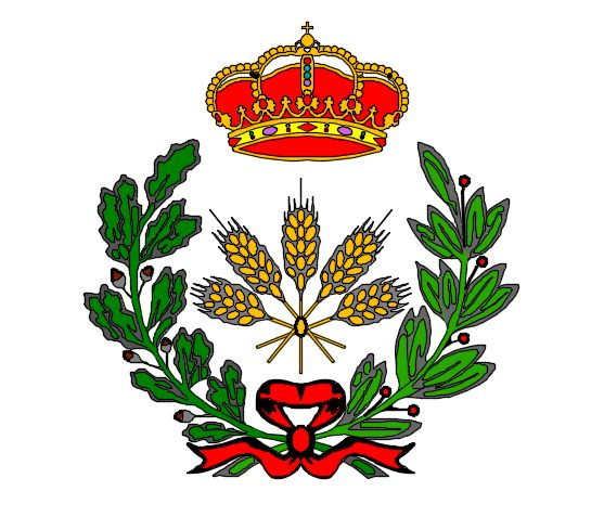 Emblem of the Agricultural Engineer professional carreer. Spain